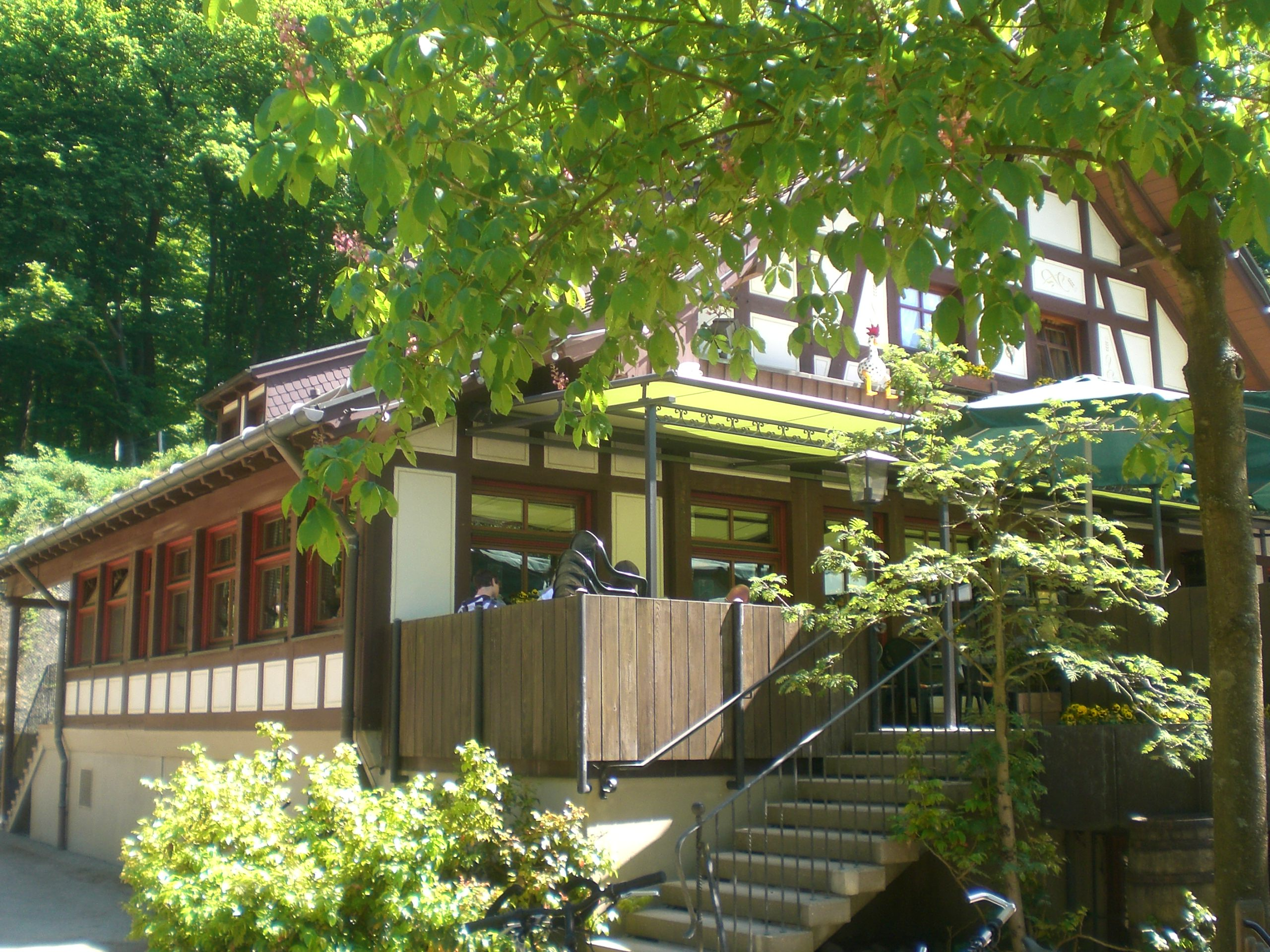 Restaurant of the historical Hofgut Retters in Kelkheim (Taunus)